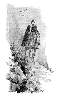 Illustration for the poem Death of Shemaka (horseman)